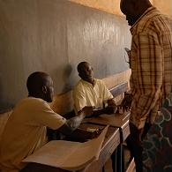 Officials check voter cards in Mali's presidential election 29 April 2007